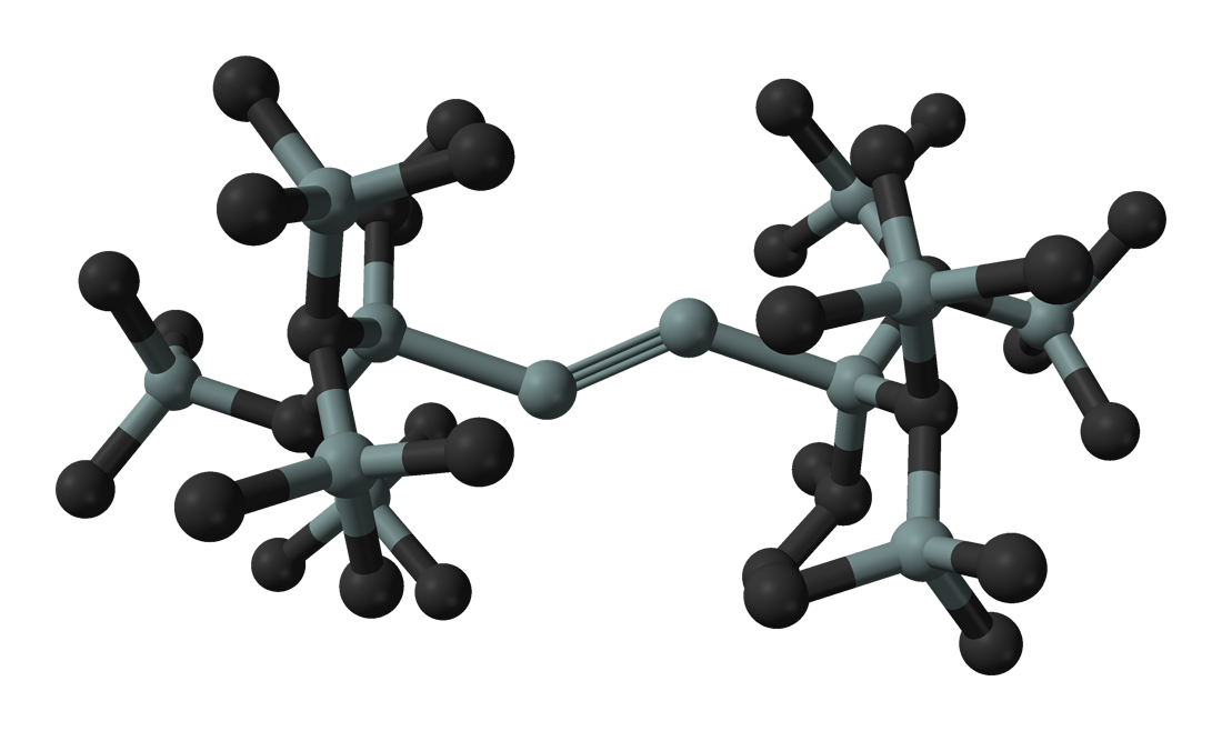 Ball-and-stick model of a disilyne, a molecule containing a silicon-silicon triple bond. Carbon atoms are black, silicon grey, hydrogen atoms omitted for clarity. X-ray crystallographic data from Akira Sekiguchi, Rei Kinjo, Masaaki Ichinohe (September 2004). "A Stable Compound Containing a Silicon-Silicon Triple Bond". Science 305 (5691): 1755 – 1757.